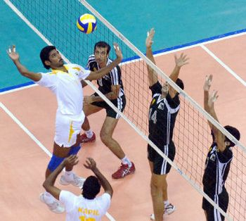 pradeep blocking in a match against pakistan